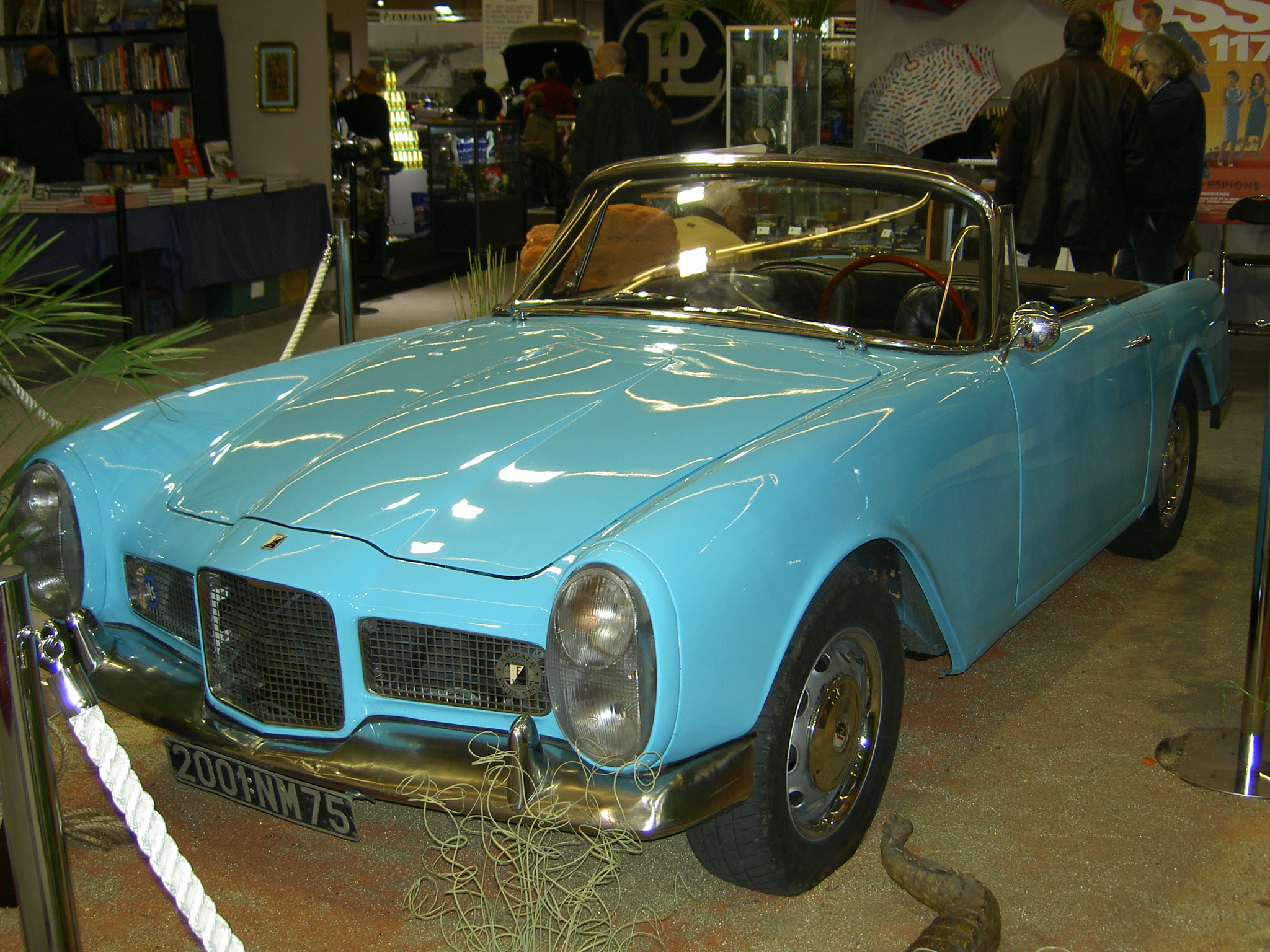 Facel Vega Facellia (French car) at the Salon RetroMobile, in France